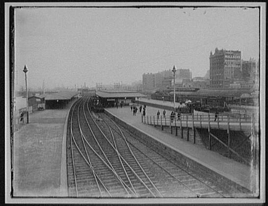 Title: Flinders Street Station - Melbourne Physical description: 1 photographic print : gelatin silver ; 8 x 10 in. or smaller. Notes: Photographic print made by LC from Jackson's vintage glass negative.; Forms part of: Jackson, William Henry, 1843-1942. World's Transportation Commission photograph collection (Library of Congress).; Gift; Colorado Historical Society; 1949.; Caption with negative: Railroad station - Sydney(?); Identified by R. Woodley, 2002.